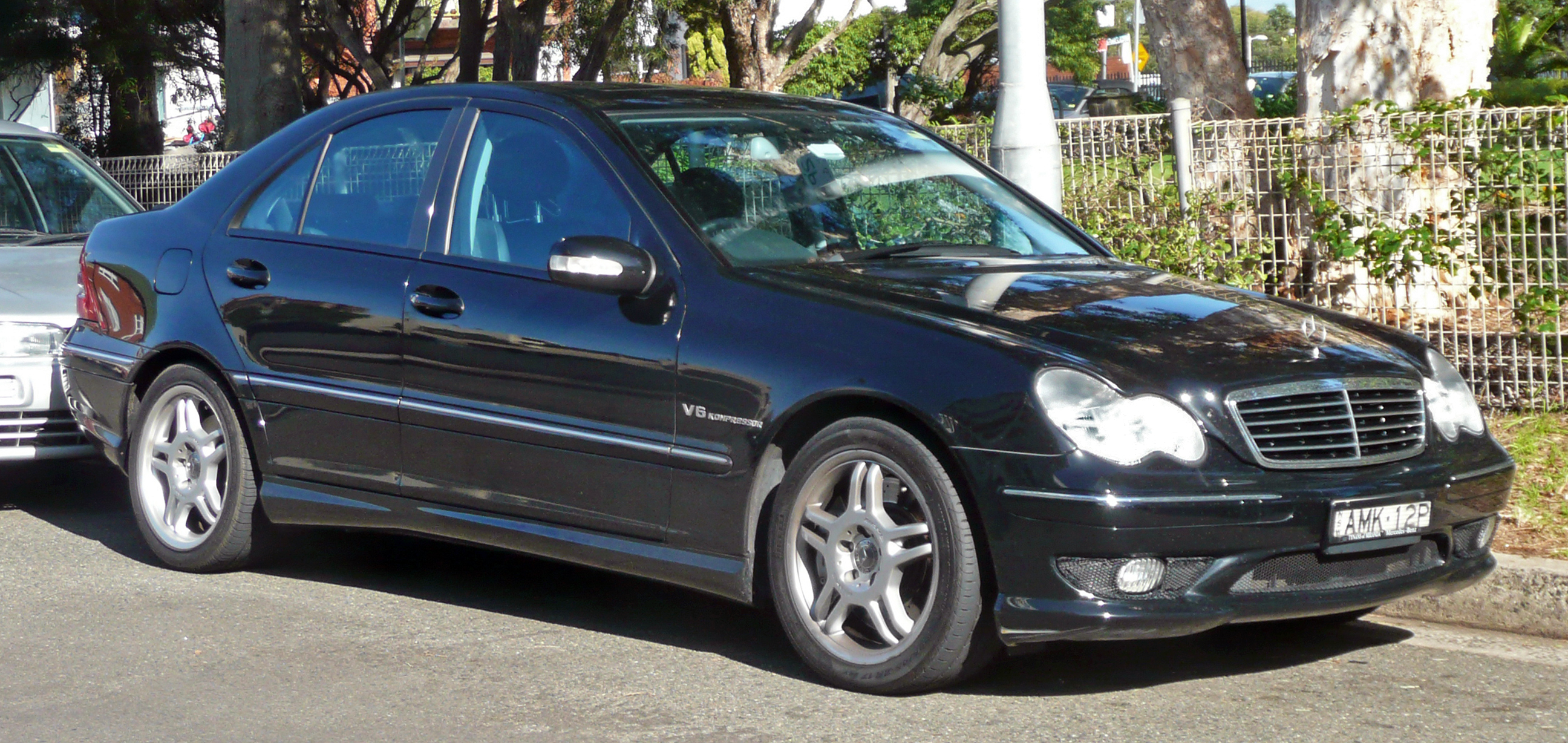 2002 Mercedes-Benz C 32 AMG (W 203) sedan. Photographed in Cronulla, New South Wales, Australia.